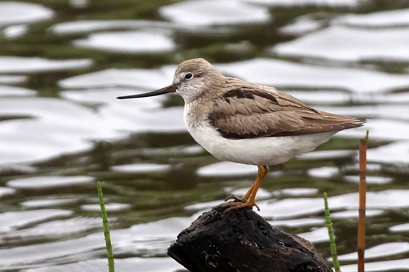 Xenus cinereus in Western Lapland